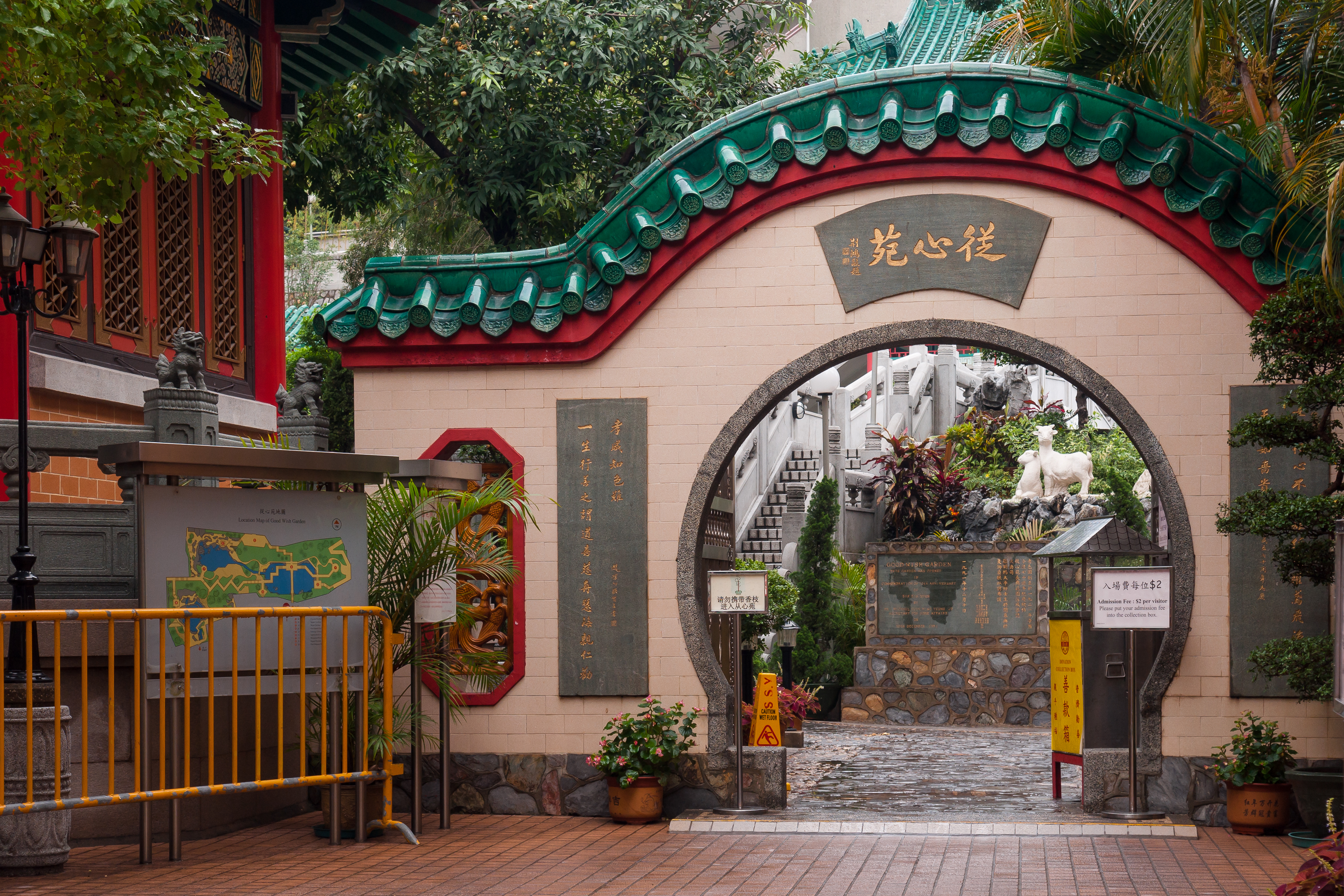 Hong Kong, China: Entrance of the Good Wish Garden in Wong Tai Sin Temple